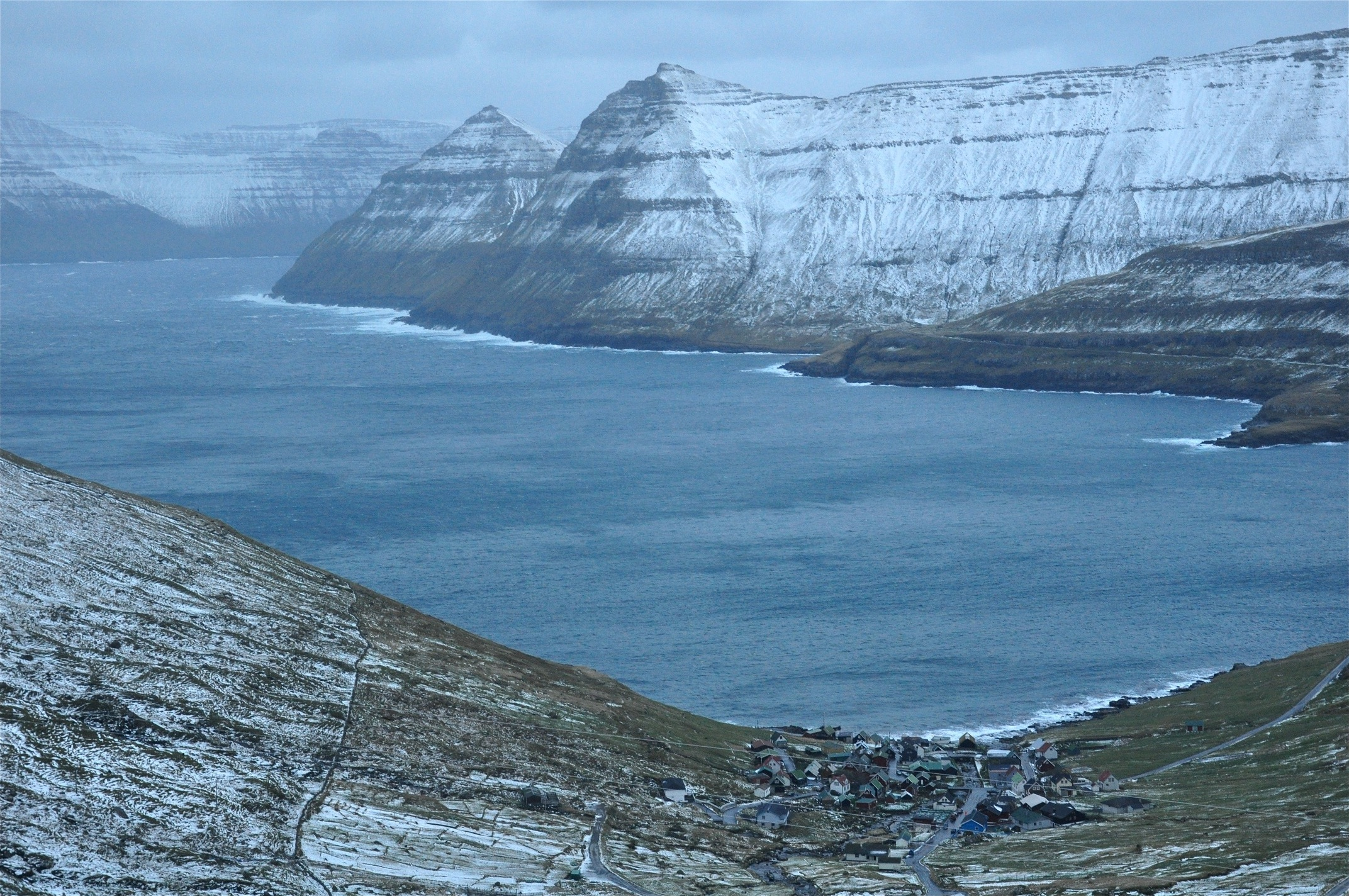 Funningur on a bleak October evening (Eysturoy, Faroe Islands). The two pyramidal mountains on the opposite shore of Funningsfjørður are Tindur (= the highest summit of the small Oyndfjarðarfjall-massif, 503 m) and Skoratindur (529 m).